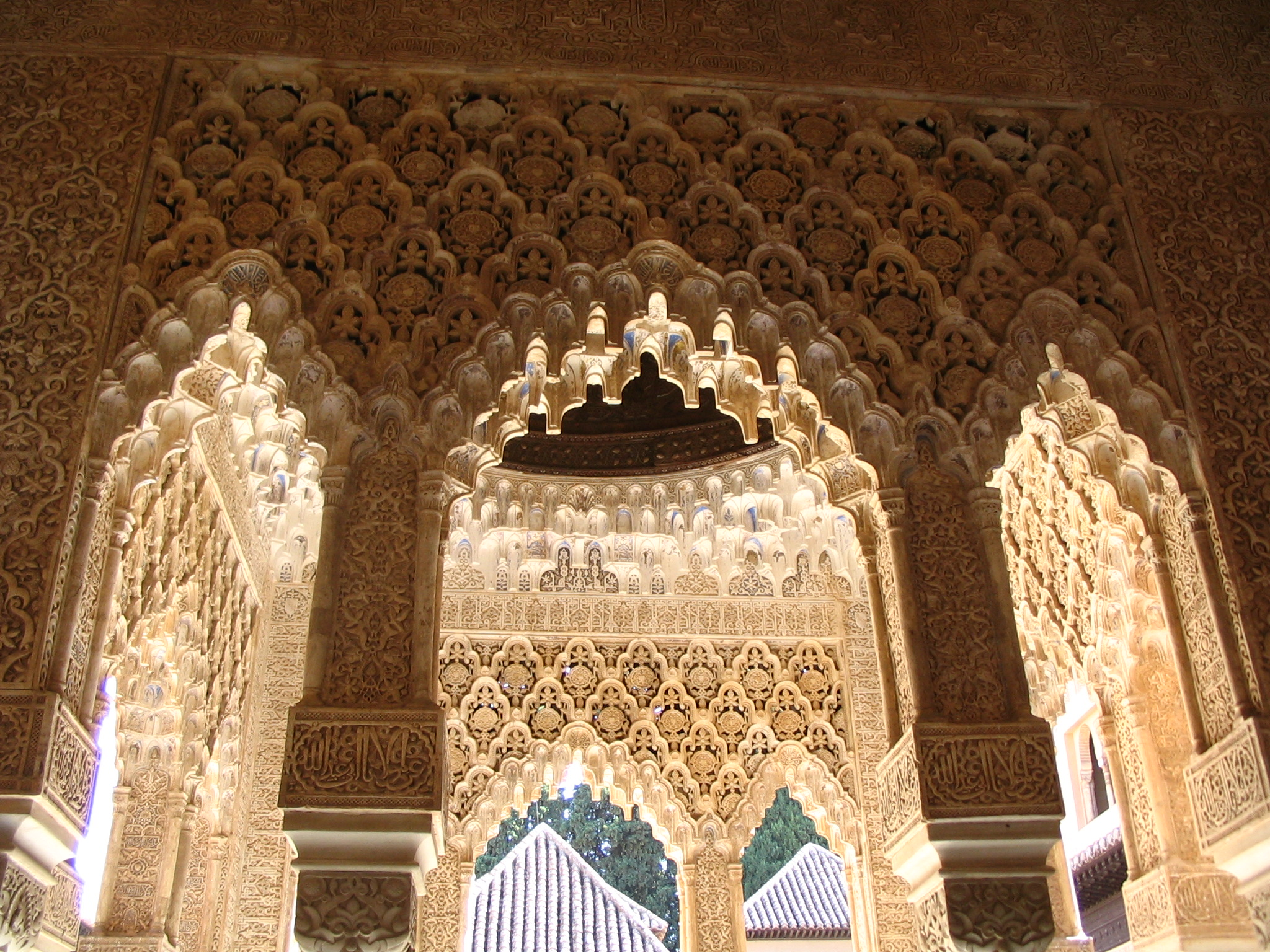 Picture taken by myself.